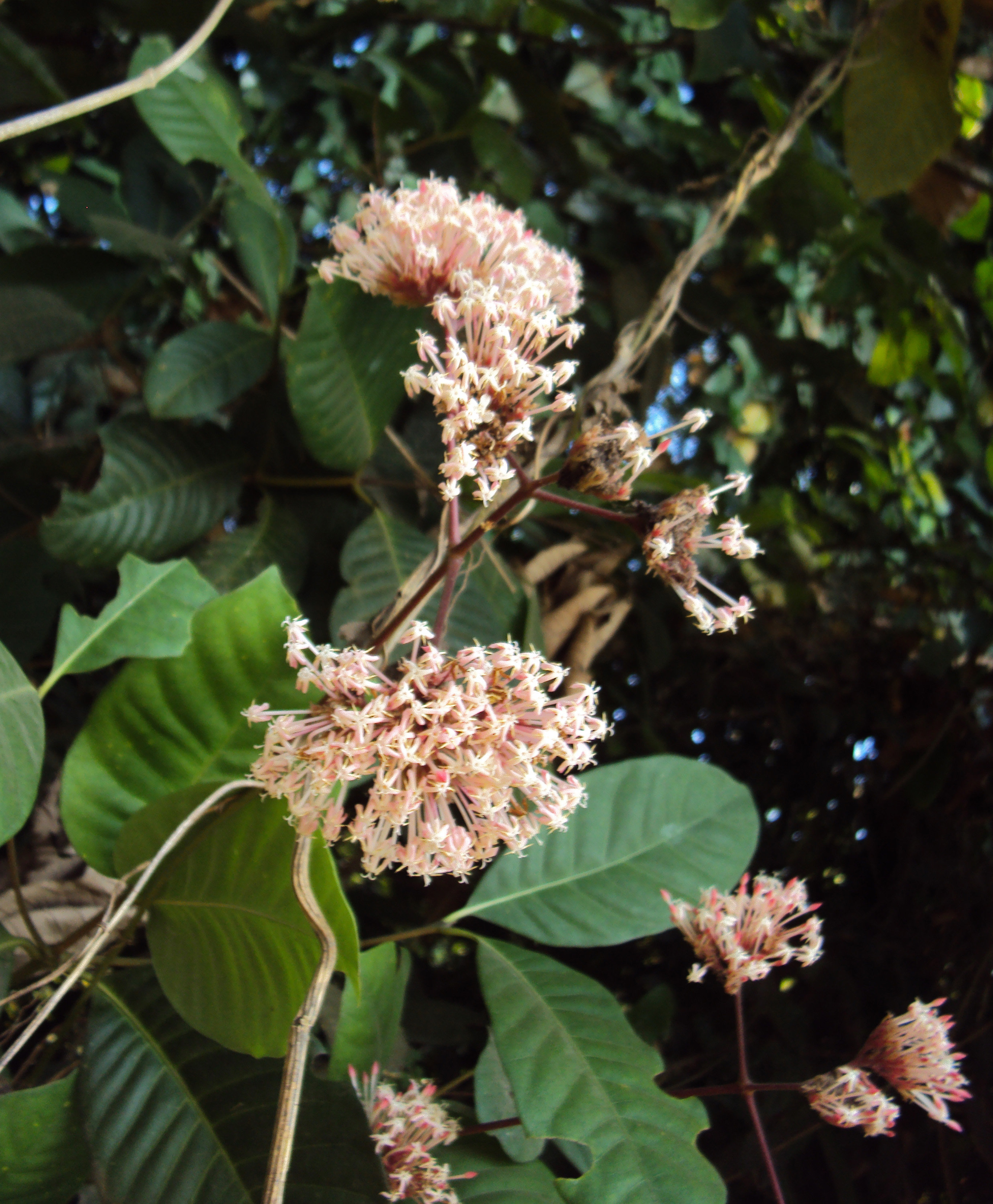 Ixora elongata B.Heyne ex G.Don